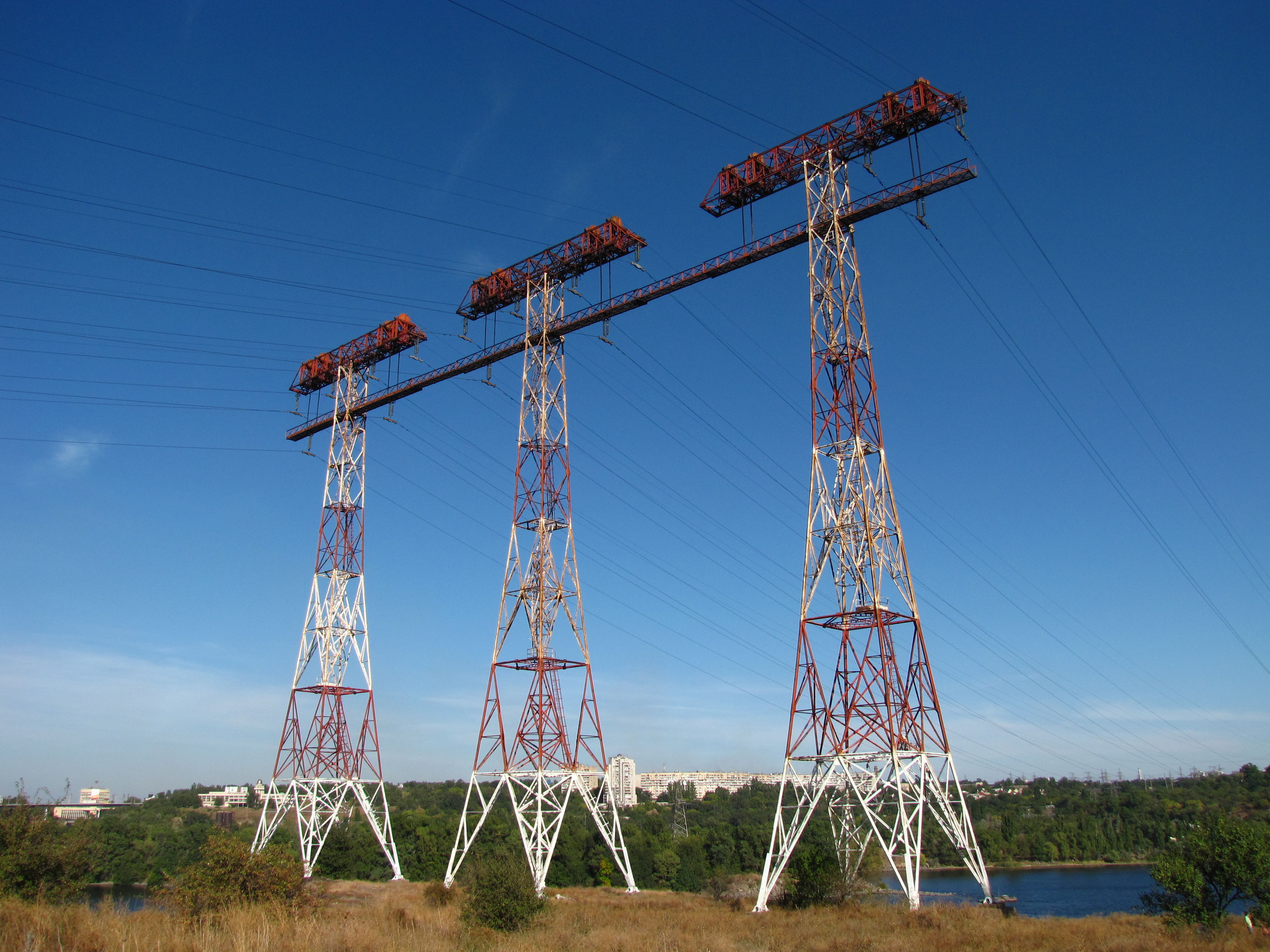 The Zaporizhia Pylon Triple[citation needed] is a set of two triples of 74.5 metres (244 ft) tall electricity pylons extending over the Dnieper River standing on a 27m rock in Zaporizhia, Ukraine. They are used for the transport of electricity generated at the Dnieper Hydroelectric Station over a span of 900 metres from Khortytsia Island to the east bank of Dnieper River. The two triples are an unofficial landmark of Zaporizhia.